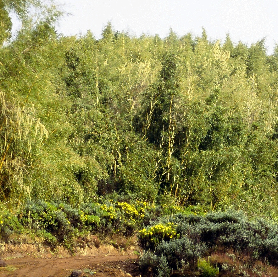 Bamboo zone to south east of Mount Kenya on Chogoria route. The road has enabled non-bamboo species to populate. This might be Yushania alpina.